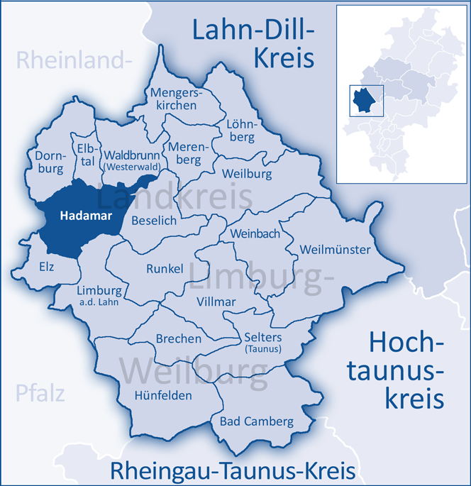 The map shows a district in the area of Limburg-Weilburg